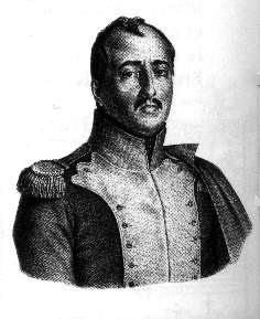 Portrait of Italian bass opera singer Filippo Galli (1783-1853)